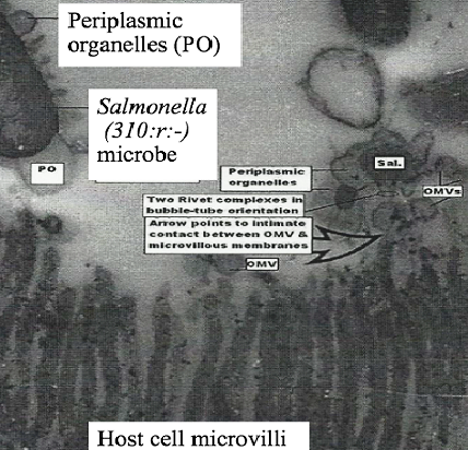 Transmission electron micrograph of human Salmonella (3,10:r:-) 18-hr after experimental infection of chicken ileum.